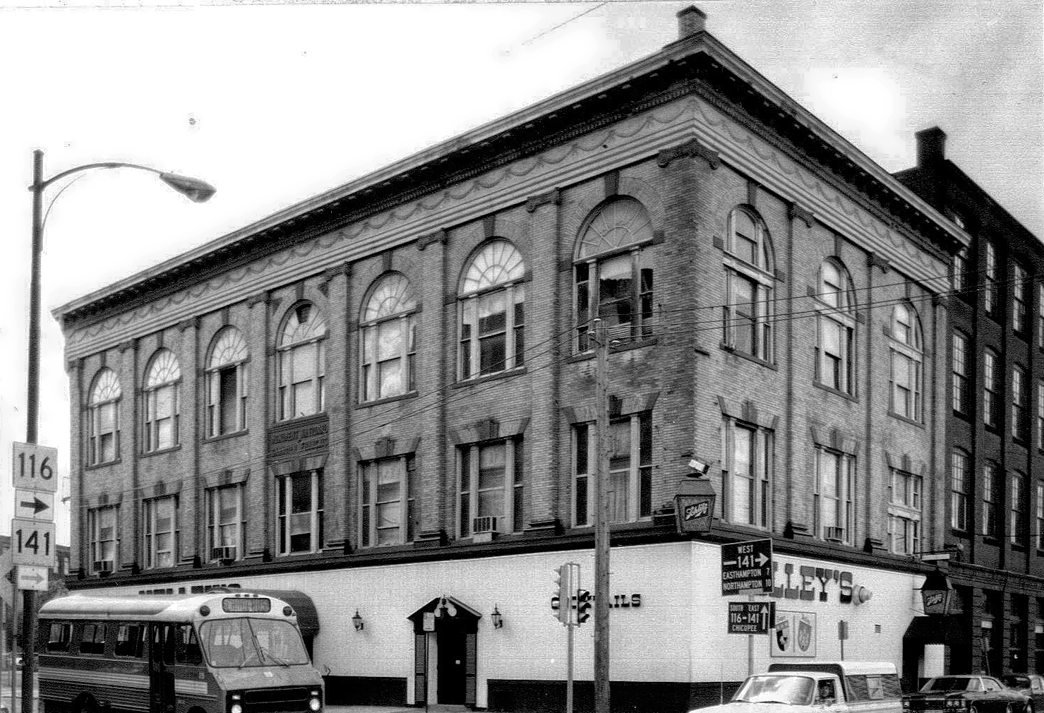 The former Monument National Canadien Français in Holyoke, Massachusetts after its ground floor had been converted to a restaurant named Kelly's. In December of 1984, 6 months after this photo the building would be destroyed entirely in a fire attributed to arson. In its history the building's grand hall would host drama societies, city government banquets, religious services for a fledgling Holy Trinity Greek Orthodox Church, and a number of other functions both in the French and greater Holyoke communities.